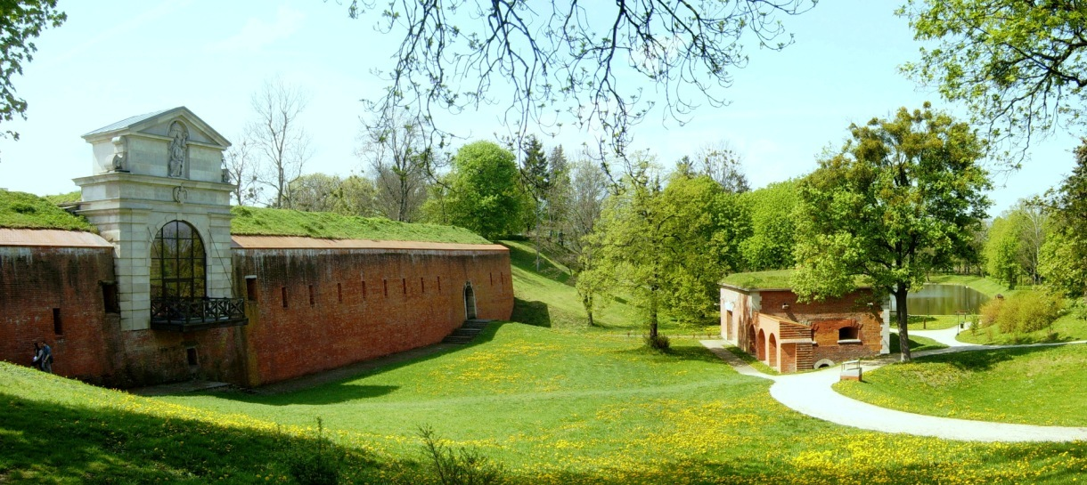 Town Park in Zamość - old Lublin Gate and caponier